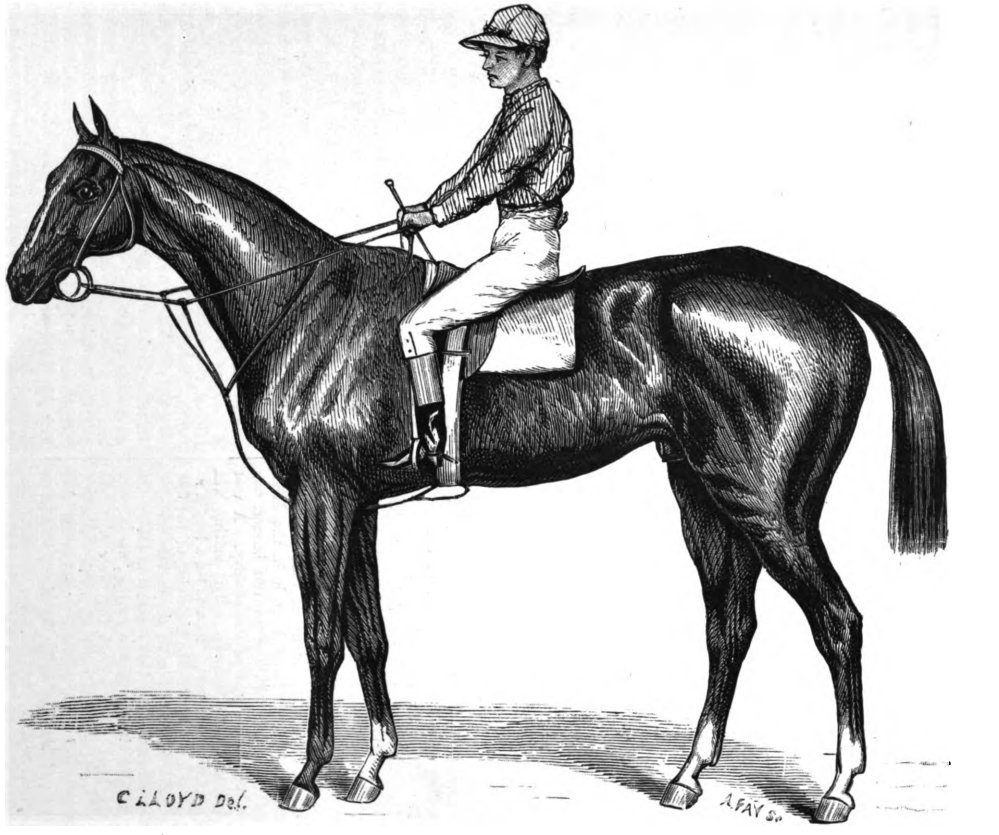 1873 Belmont Stakes winner, Springbok.